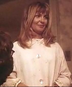 Screenshot of Joanne Woodward from the trailer for the film Rachel, Rachel